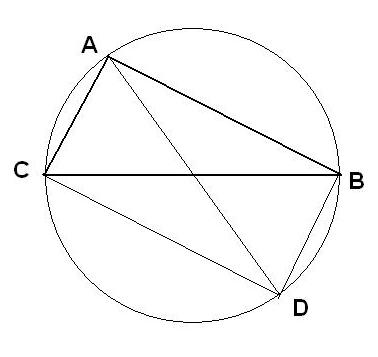 Thales´s theorem, geometric deduction